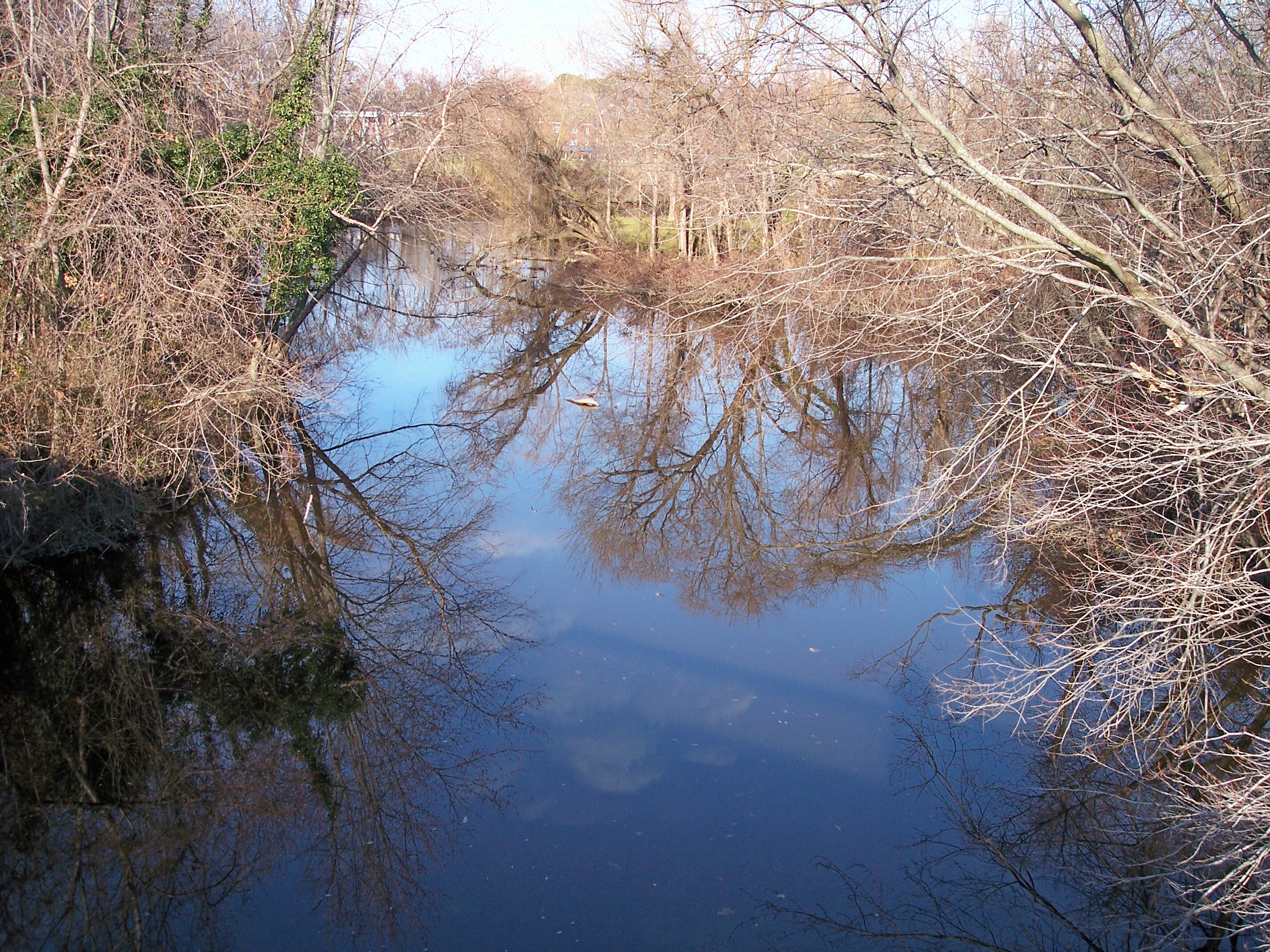 The St. Jones River in Dover, Delaware, as viewed upstream from Court Street